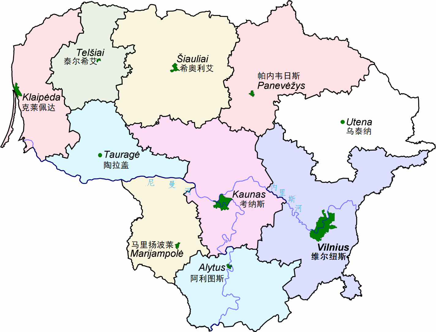 The counties of Lithuania